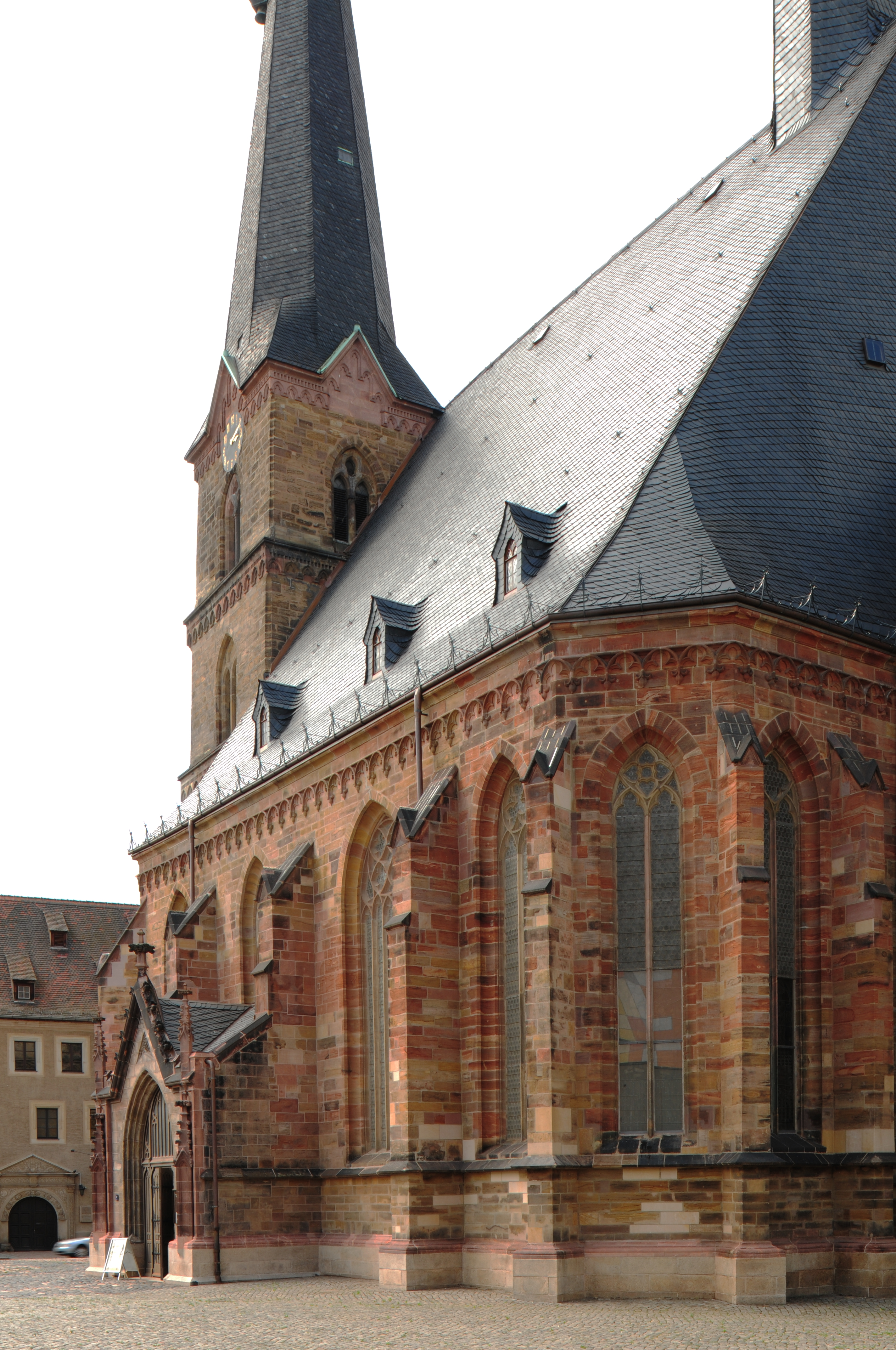 Protestant church St Katharinen in Zwickau (district Landkreis Zwickau, Free State of Saxony, Germany)